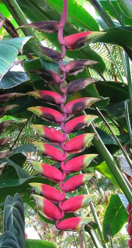 Heliconia velutina, inflorescence, Botanical garden Heidelberg